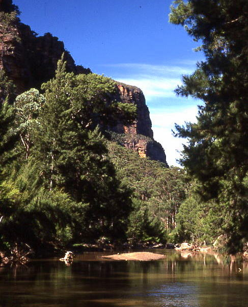 Capertee River, Wollemi NP, New South Wales, Australia (Kodachrome slide scanned at low res)